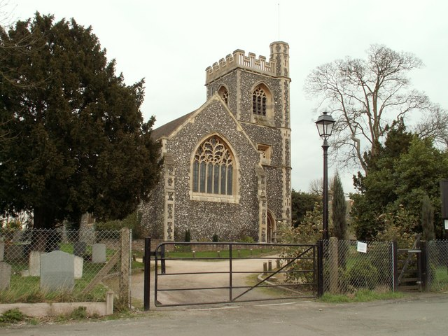 The west front of St John the Evangelist's parish church, Havering-atte-Bower, London (formerly Essex), seen from the northwest